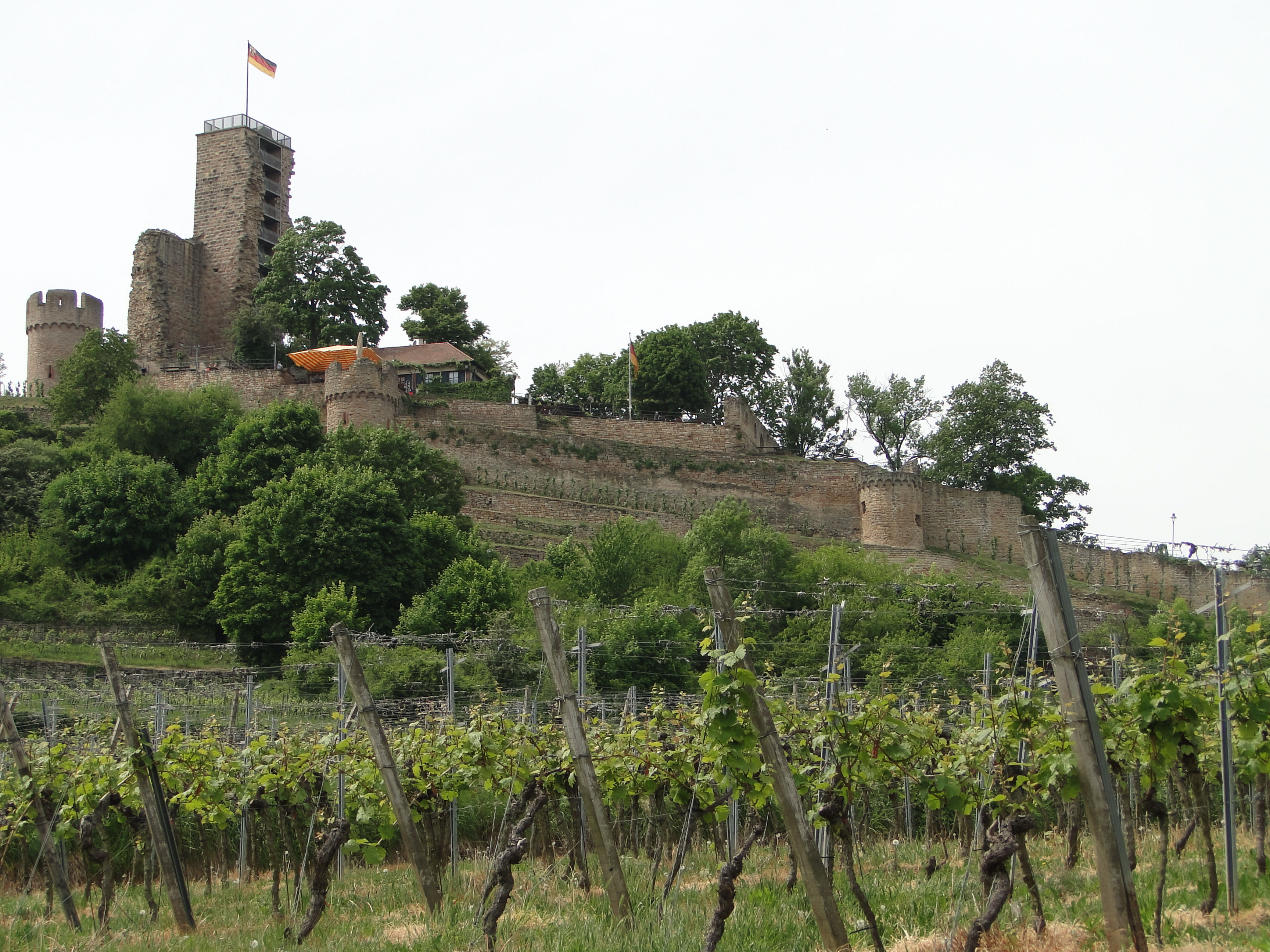 Blick auf die Wachtenburg, Pfalz, von Süden